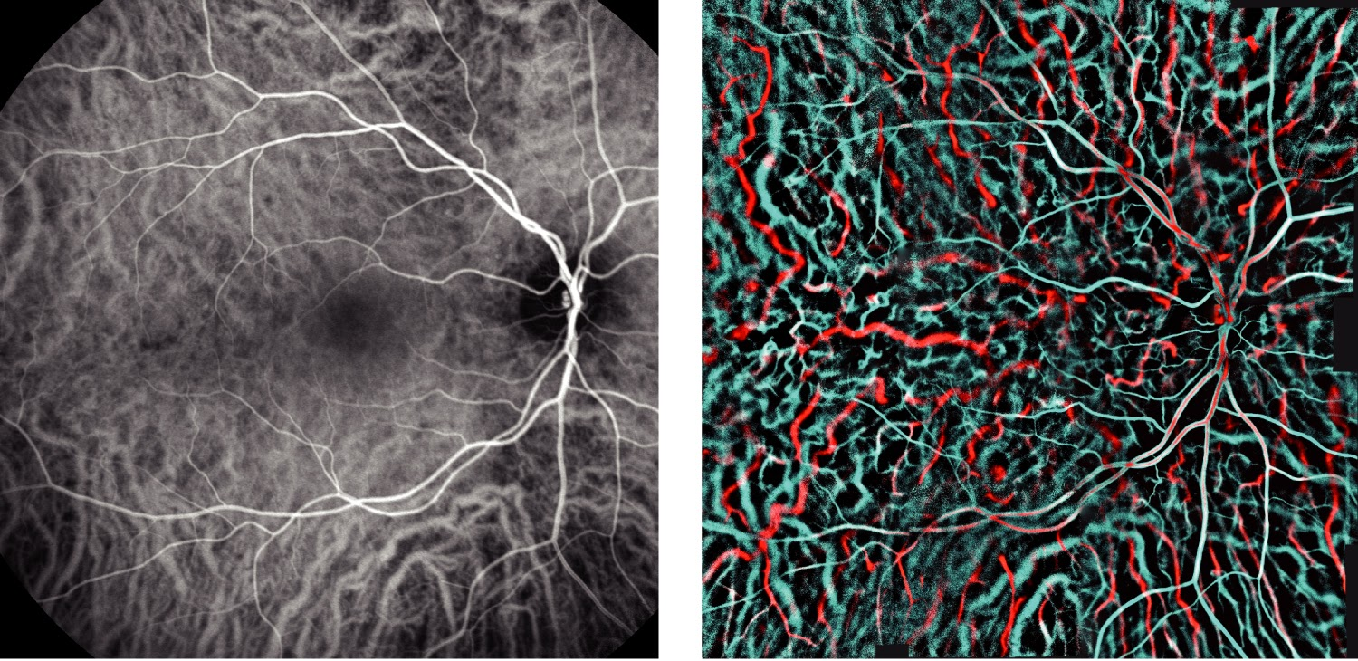 Angiographies of the eye fundus revealing the choroid. ICG-angiography (Spectralis, Heidelberg, left) and laser Doppler holography (right)